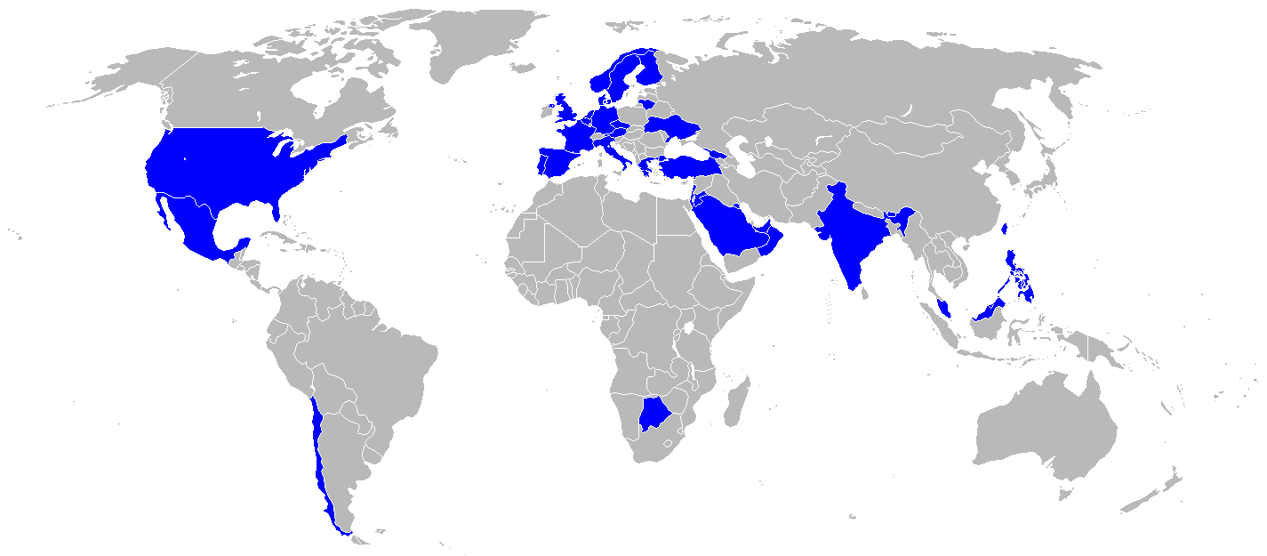 Map of Users of the Barrett M82 .50 Caliber sniper rifle made from the file Image:BlankMap-World.png